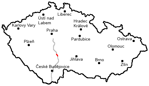 Route of the Czech Highway D3. Created by Petr Adamek in October 2005.